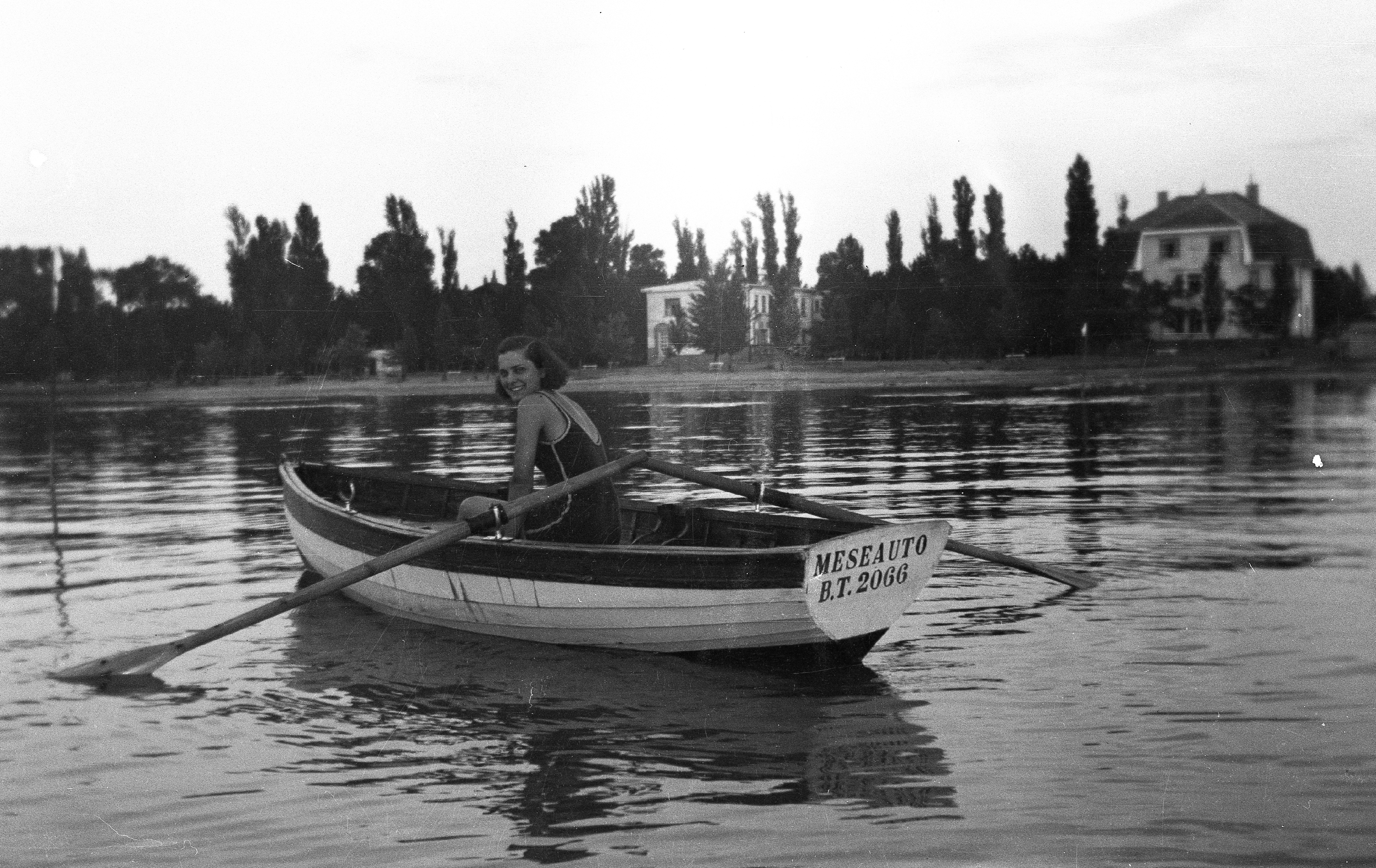 Location: Hungary, Balatonszabadi Tags: boat, portrait, woman, shore, water surface, boating, paddling, summer